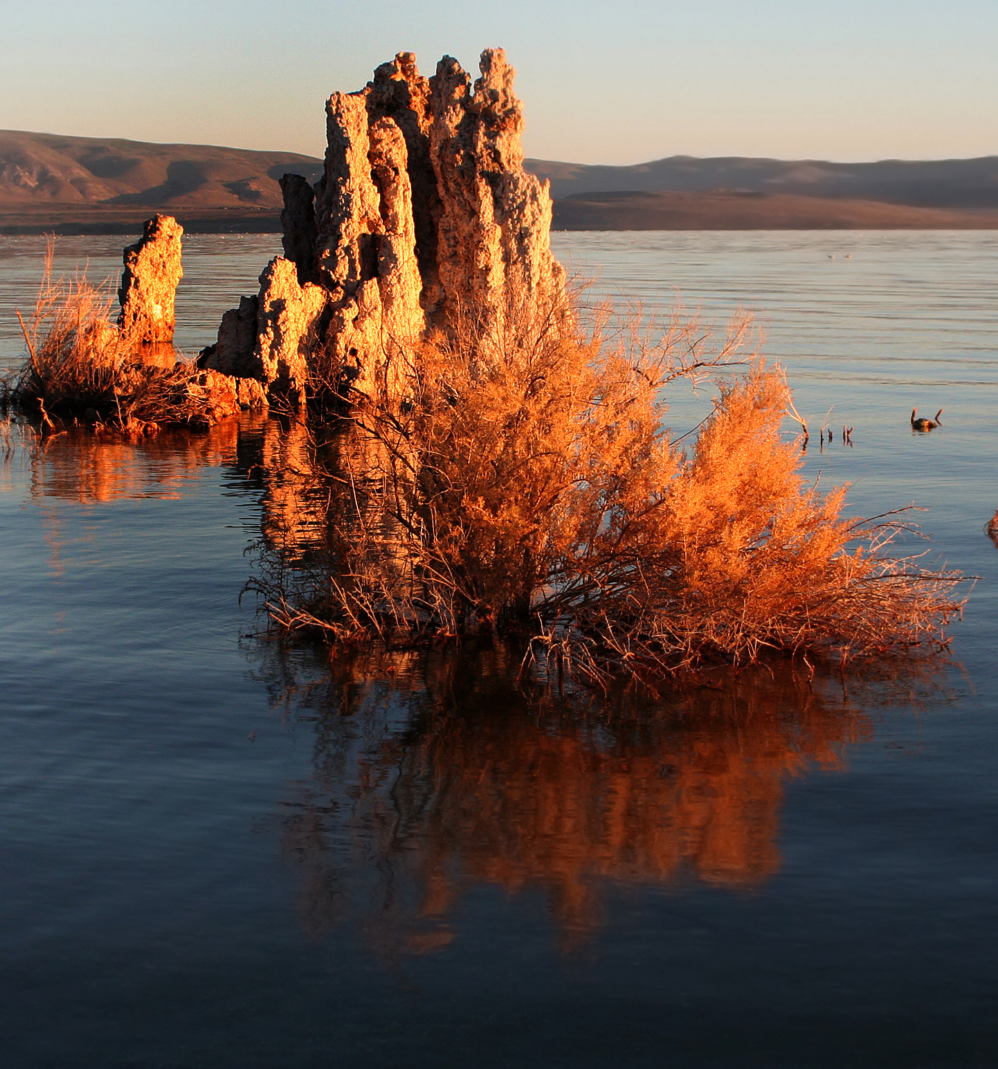 Tufa towers in Mono Lake are calcium carbonate spires and knobs formed by interaction of freshwater springs and alkaline lake water. Tufa can reach heights of 30 feet (9.1 m). Mono Lake is located in the Eastern Sierra Nevada and covers about 65 square miles. Throughout the lake's existence of over 1 million years, the steady evaporation of freshwater originally coming from Eastern Sierra streams has left the salts and minerals behind so that the lake is now about 2 1/2 times as salty and 80 times as alkaline as the ocean.